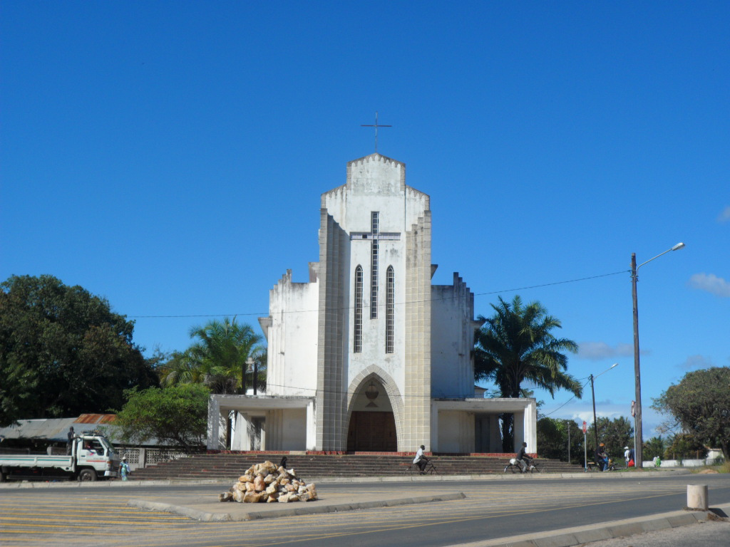 Church in Mocuba, Mozambique